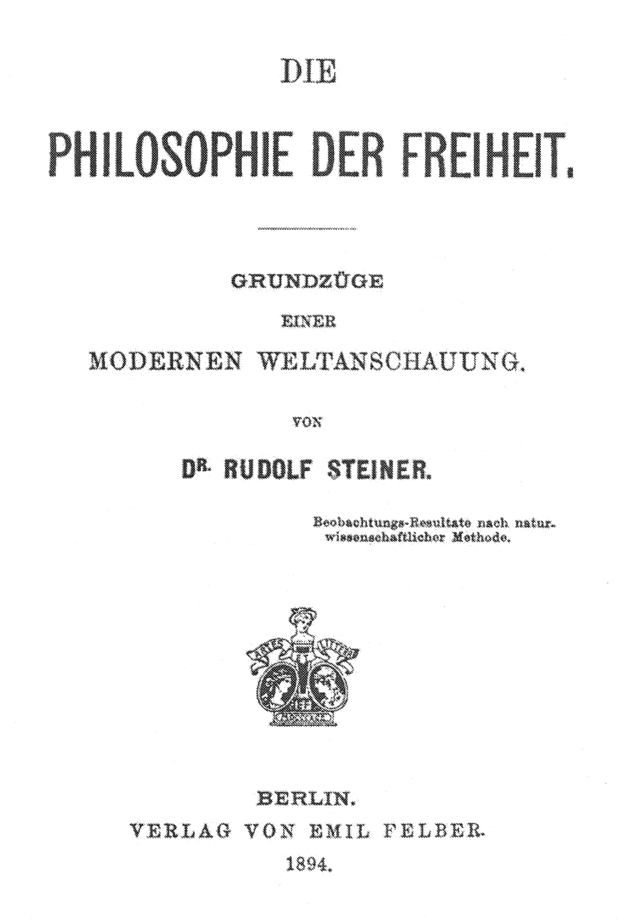 The Philosophy of Freedom, First Edition, 1894, title page